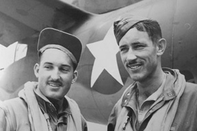 1st Lieutenant James Muri with 2nd Lieutenant Pren Moore